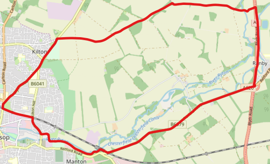 Map of the Worksop East ward of Bassetlaw. This map may be incomplete, and may contain errors. Don't rely solely on it for navigation.